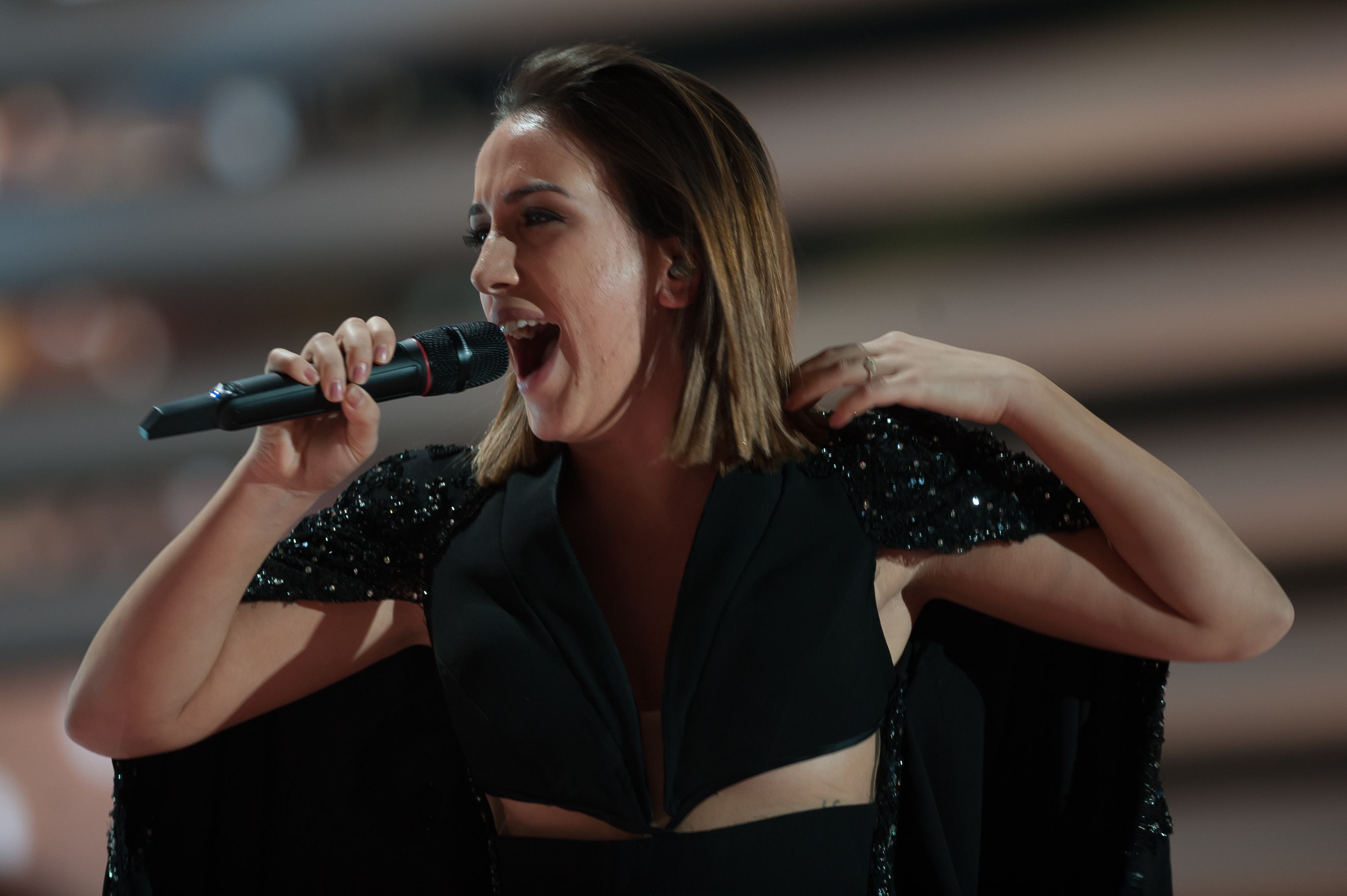 Eurovision Song Contest Vienna 2015: Elhaida Dani, Albania